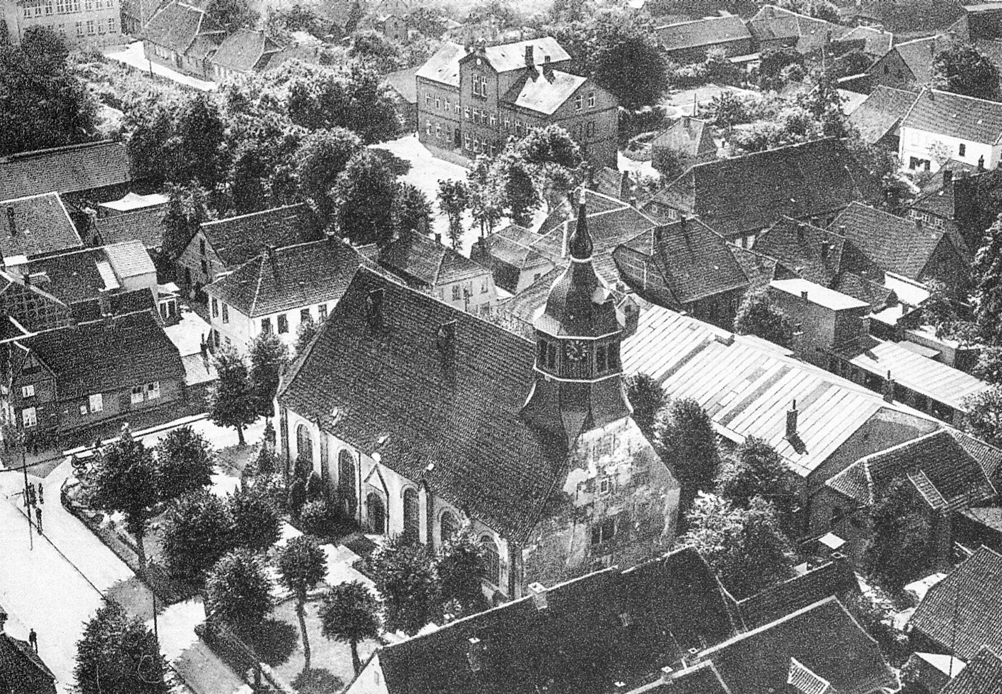 This image shows an aerial view of the St. Liborius Church in Bremervörde from 1950.